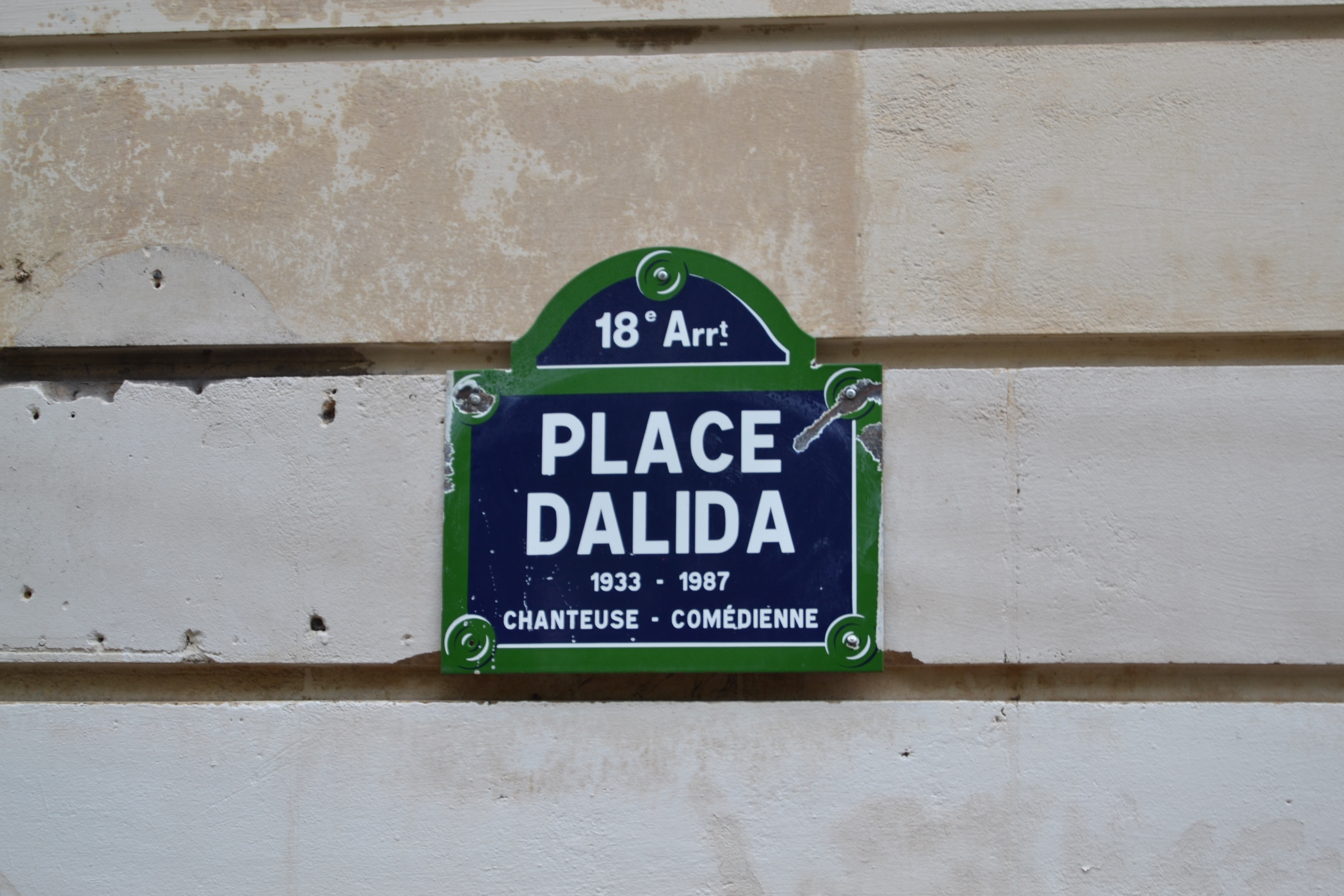 Place Dalida: Sign on the Place Dalida on Montmartre, Paris (France)